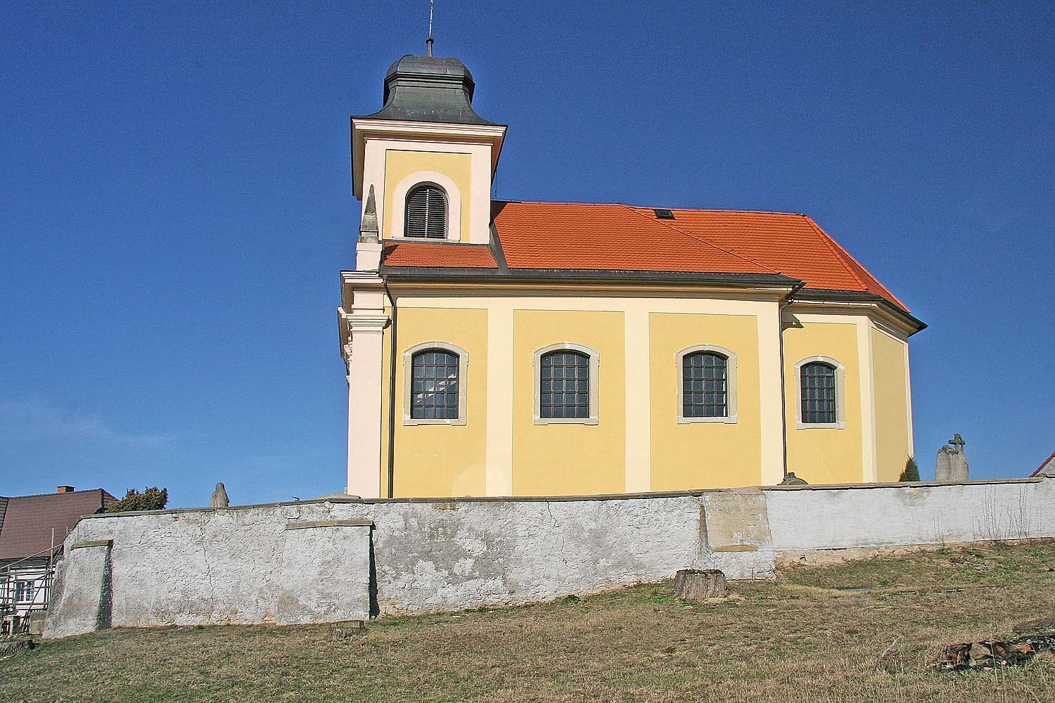 SS Simon and Jude church in Chyjice, Jičín District, Czech Republic